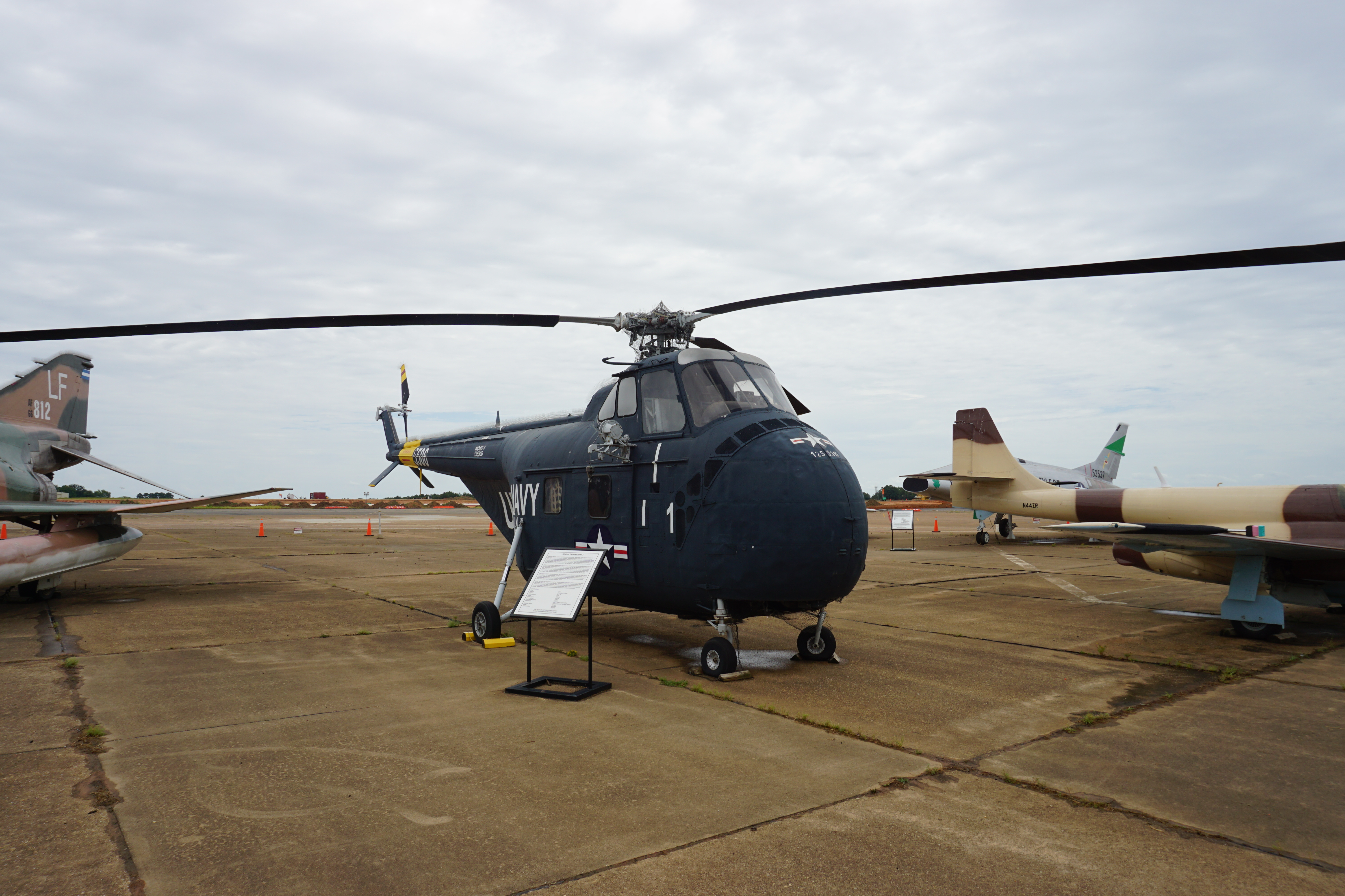 A Sikorsky HO4S-1 on display at the Historic Aviation Memorial Museum at Tyler Pounds Regional Airport near Tyler, Texas (United States).